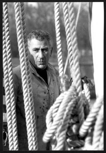 Captain Randier led the restoration of the Belem, which lasted from 1981 to 1985. Capt Randier is seen here through the ropes, aboard the Belem moored in the port of Suffren, in front of the Eiffel Tower.